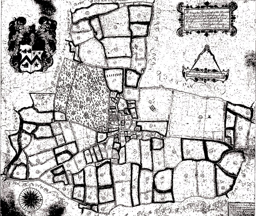 Rise Hall, Rise, East Riding of Yorkshire, England. Map of Rise Hall estate created in 1716, North of Map is to the right of the image.